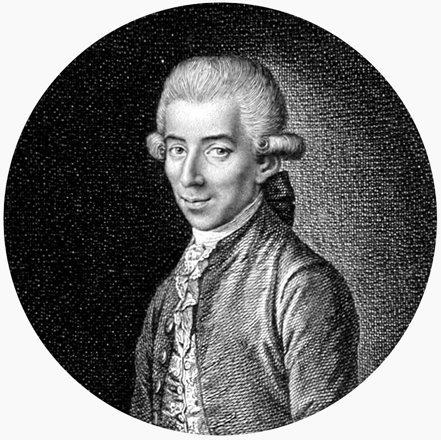 Ignaz von Born (1742-1791), austrian geologist and freemason